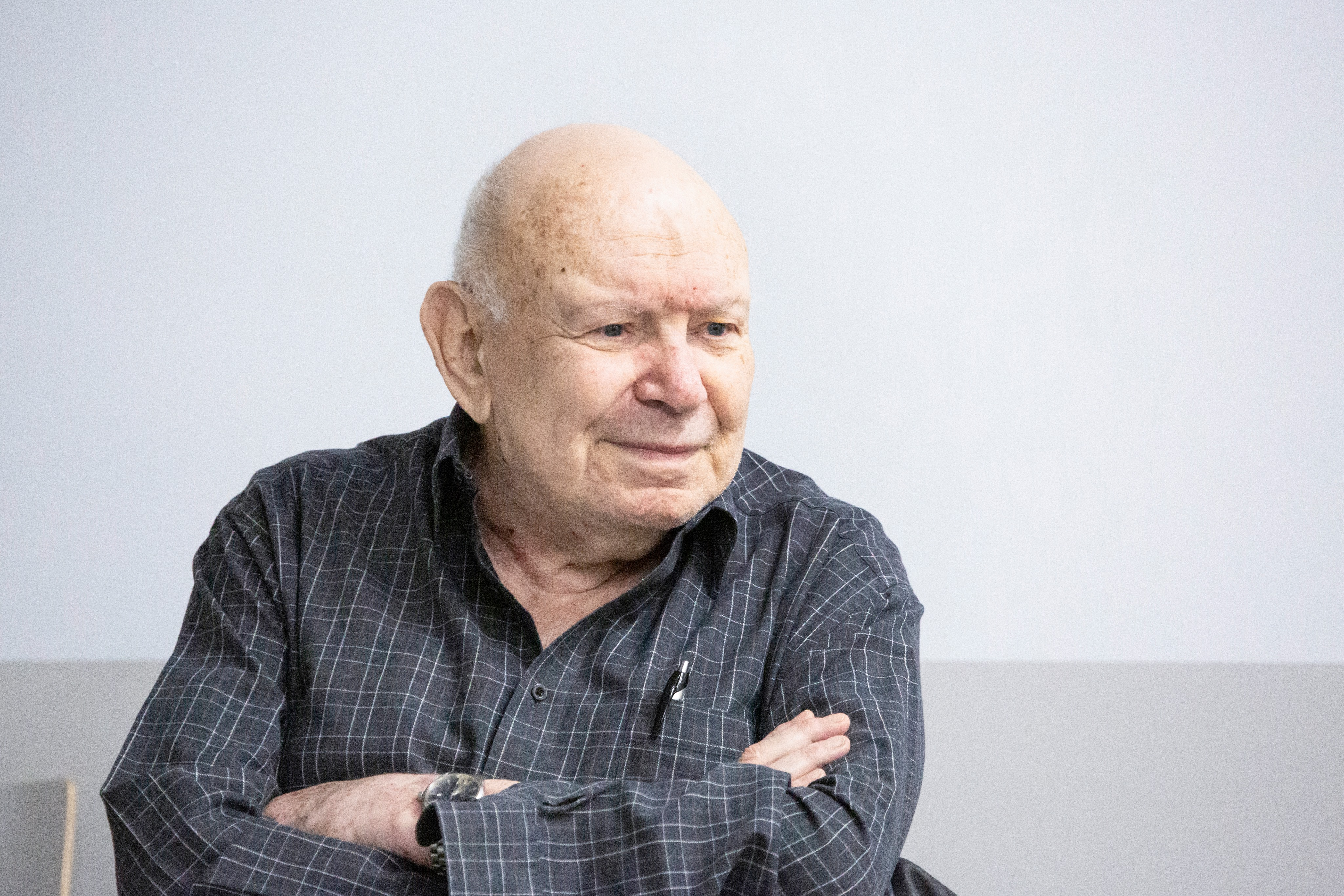 The image represents Teodor Shanin, OBE, sociologist, founder of the Moscow School of Social and Economic Sciences